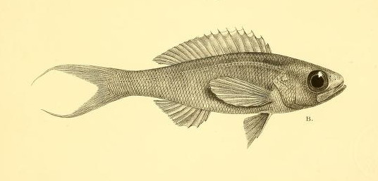 Insular Shelf Beauty, Symphysanodon typus